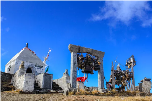 Badi Malika Temple